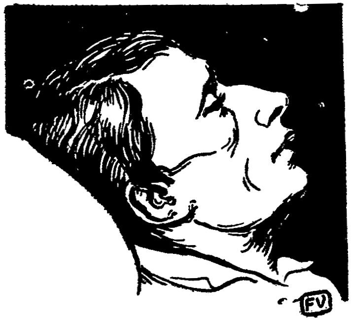 Italian poet and philosopher Giacomo Leopardi (1798-1837) by Félix Valloton (1865-1925)